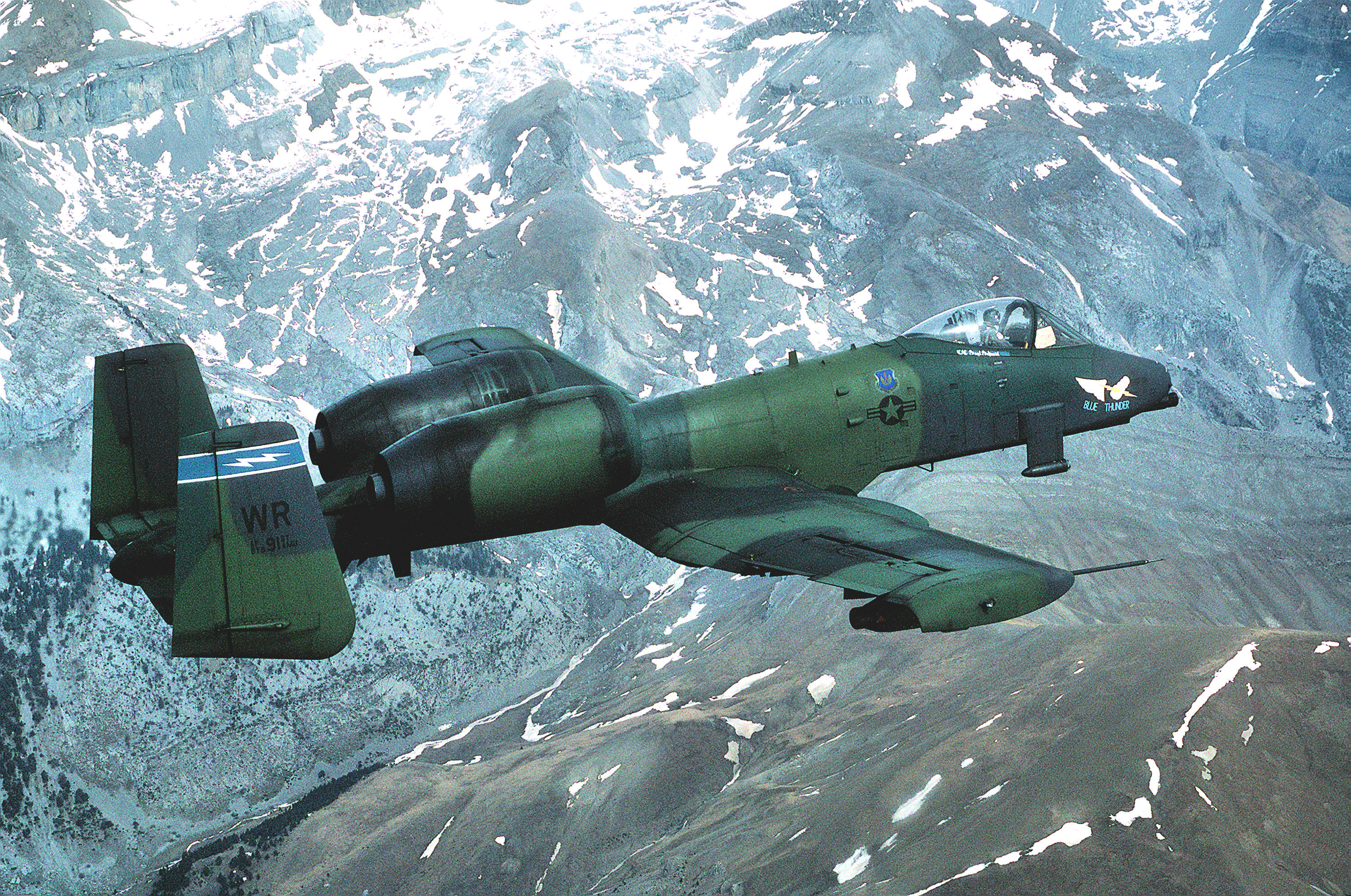 A U.S. Air Force Fairchild Republic A-10A Thunderbolt II (s/n 81-991) from the 91st Tactical Fighter Squadron flies over the French Pyrennes Mountains while taking part in a training mission along the French and Spanish border during the squadron's deployment to Zaragoza Air Base, Spain. The nose art on this particular aircraft signifies that it belonged to the squadron commander and represented an example of the U.S. Air Force's attempt to reinstate this tradition. The 91st TFS was assigned to the 81st Tactical Fighter Wing at RAF Bentwaters, Suffolk (UK). The pilot in the picture is Lt Col John Lieberherr, then Commander of the 91 TFS.